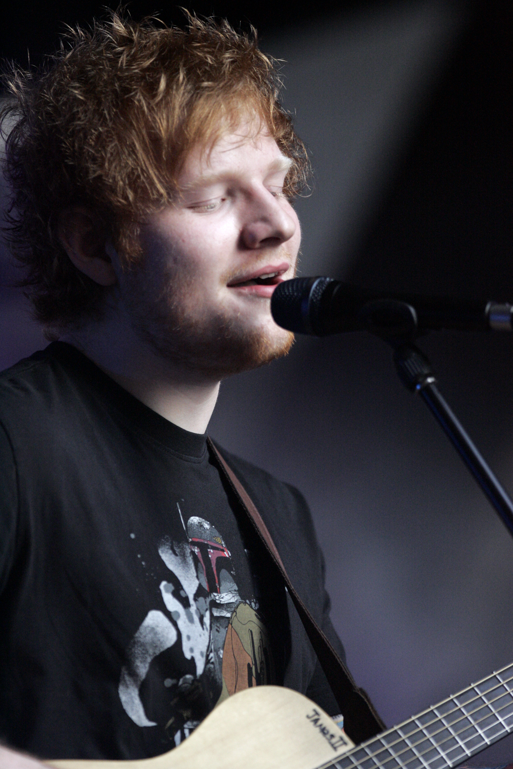 Ed Sheeran